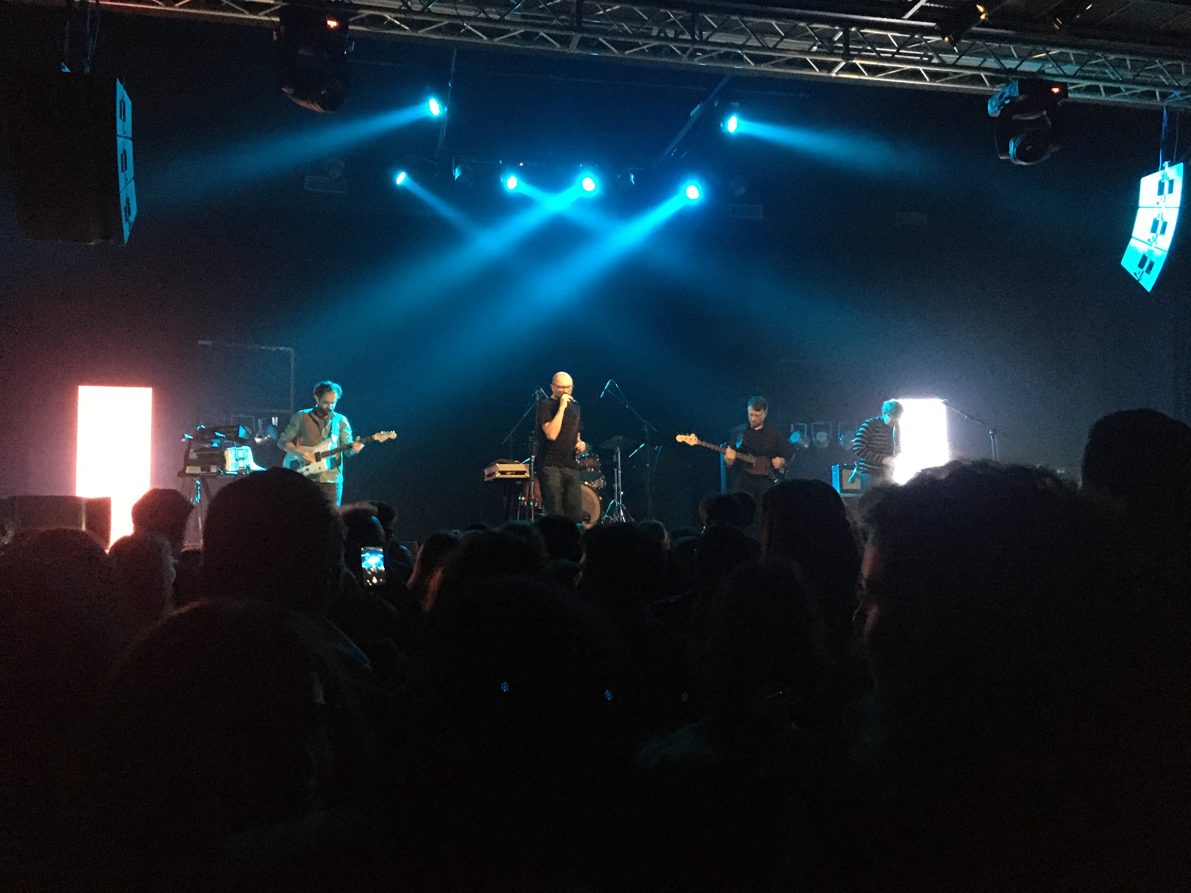 Foltin performing at the Youth Cultural Centre in Skopje on 14 February 2020